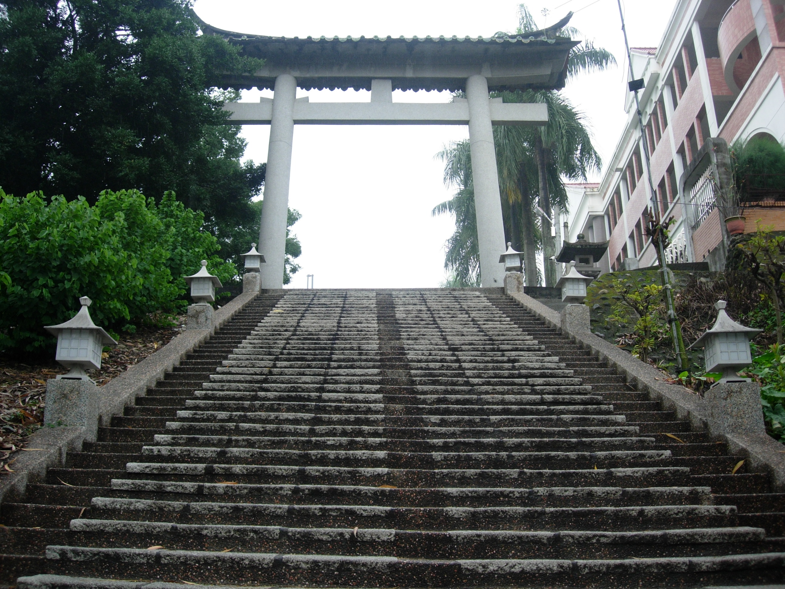 Rinnai Shrine torii and stairs